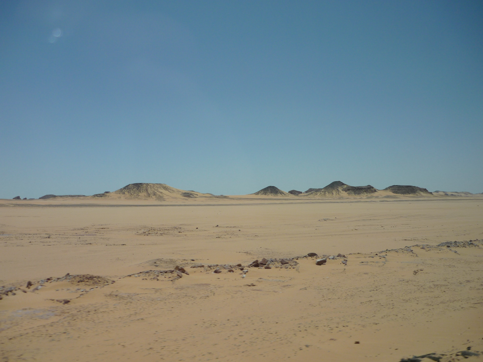 Libyan desert landscape near Abou Simbel, Egypt